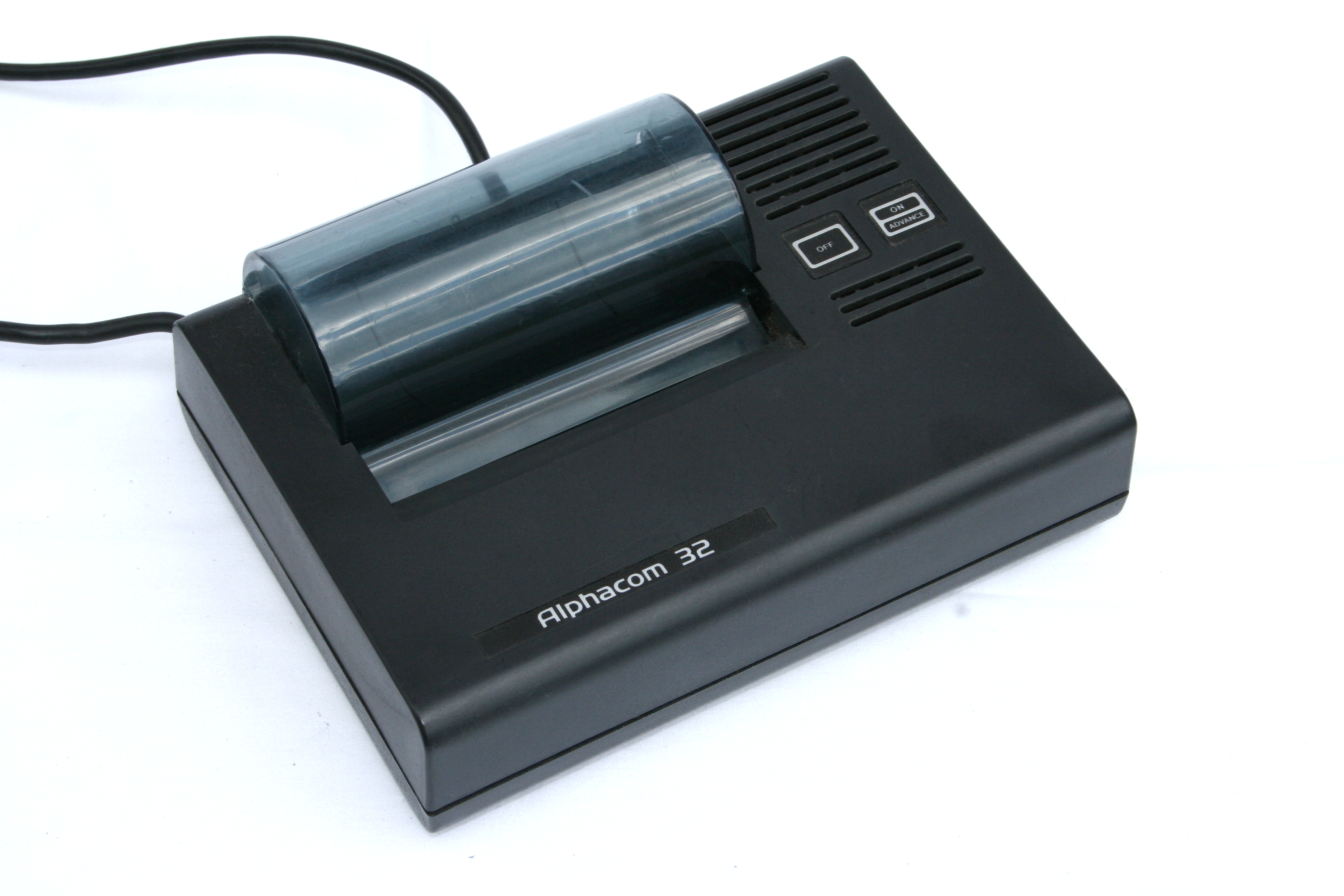 Alphacom 32 thermal printer